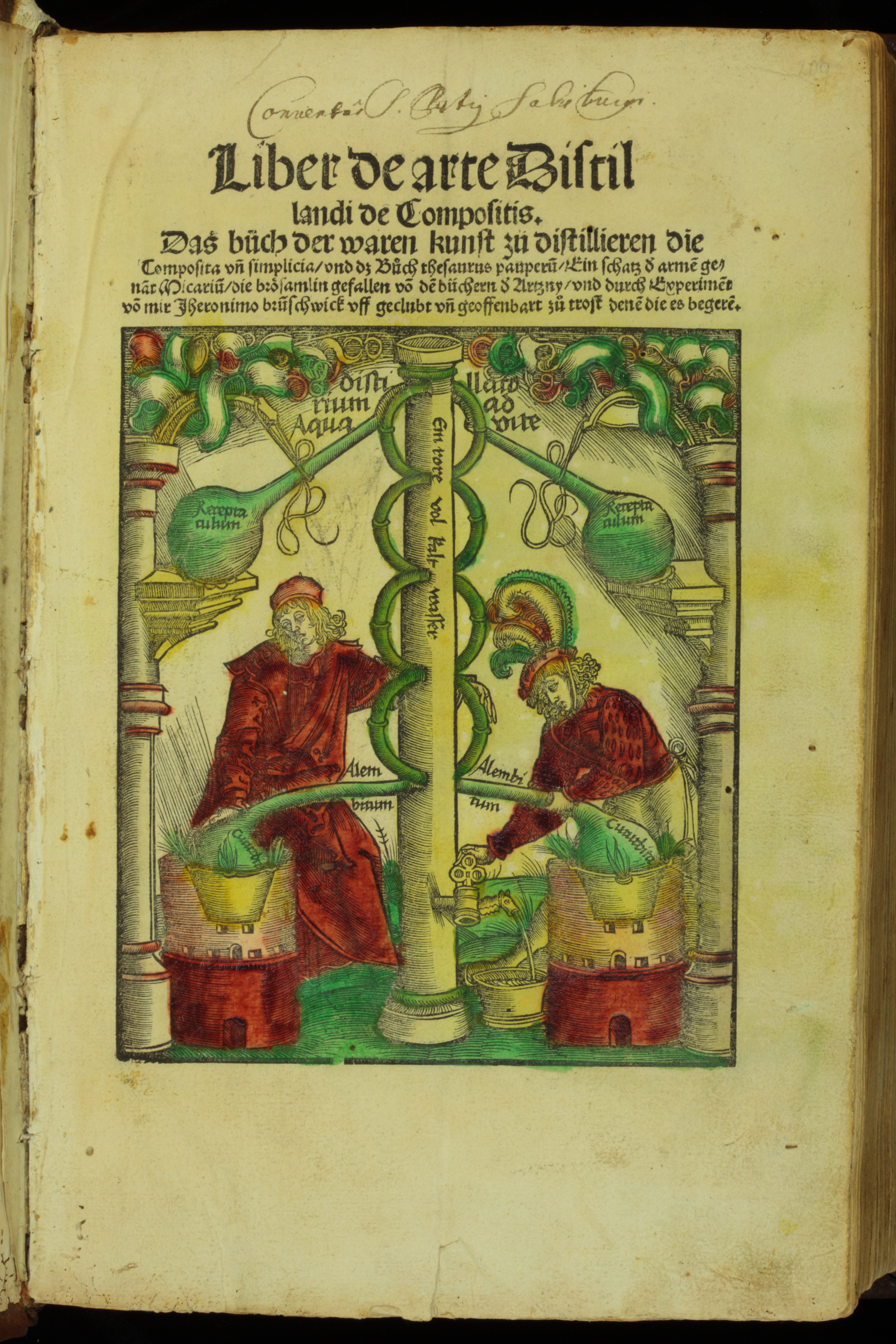 Two figures work with one of alchemy’s more grounded practices: distillation. This fanciful depiction of distillation apparatus is from Hieronymus Brunschwig’s Liber de arte Distillandi de Compositis (Strassburg, 1512). Distillation was the technology by which the essence of a sample could be separated from the dross. In its simplest form, the objective of distillation is to separate a mixture of liquid and nonvolatile solids. Since alchemists worked through a sequence of separation and recombination, distillation provided experimental evidence for their view that matter was compounded of earthy and more spirituous constituents. In practice, with the development of the art in the medieval period, alchemists learned to wield distillation apparatus to produce powerful, pure chemicals: alcohol and strong acids (hydrochloric, sulfuric, and nitric). The distinctive apparatus became emblematic of their profession. Brunschwig’s comprehensive book on distillation was one of the earliest devoted exclusively to chemical technology. This work expanded on his smaller, earlier work on distillation of herbal remedies to include a wide range of alchemical distillation techniques. The caption above the apparatus reads: Distillatorium ad Aqua vite, distillation apparatus for aqua vitae, i.e. spirits of wine. Individual pieces of the apparatus are labelled. At the bottom, the cucurbits sit in furnaces with fire issuing from them. The wine contained within them boils, and the vapours rise through a series of pipes to be recondensed and collected in the receivers or Receptacula at the top of the Alembitum. The illustration shown is artistic, rather than functional. As portrayed, the apparatus would be expensive to make and difficult to use. Rising alcohol vapours would be condensed by the "tube full of cold water" Eine rore vol kalt wasser and run back down rather than reaching the receivers.